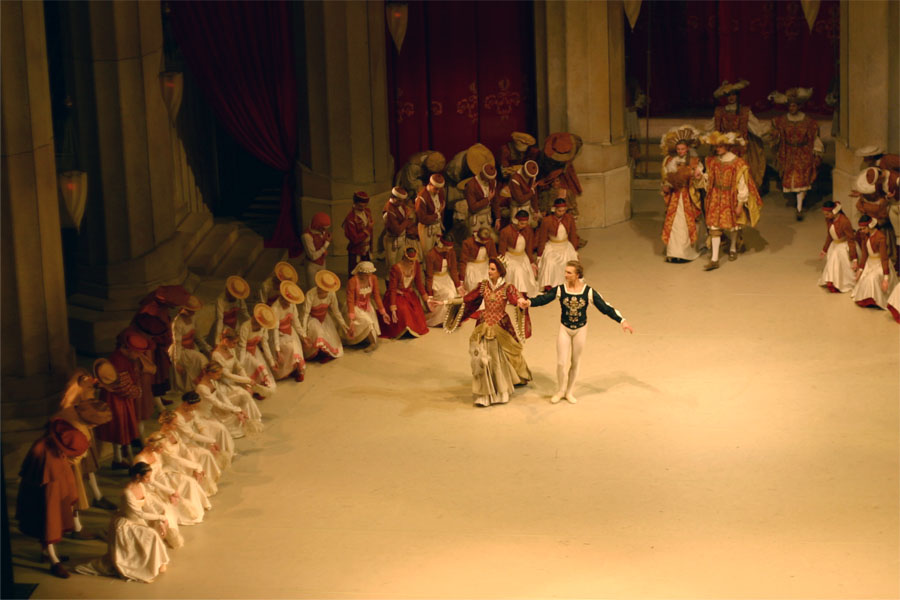 Description: Scene from Swan Lake, Act III at the Vienna State Opera Queen: Gerit Schwenk Prince Siegfried: Jürgen Wagner Choreography: Rudolf Nurejew and Marius Petipa Scenery and costumes: Jordi Roig Choreography rehearsing: Richard Nowotny